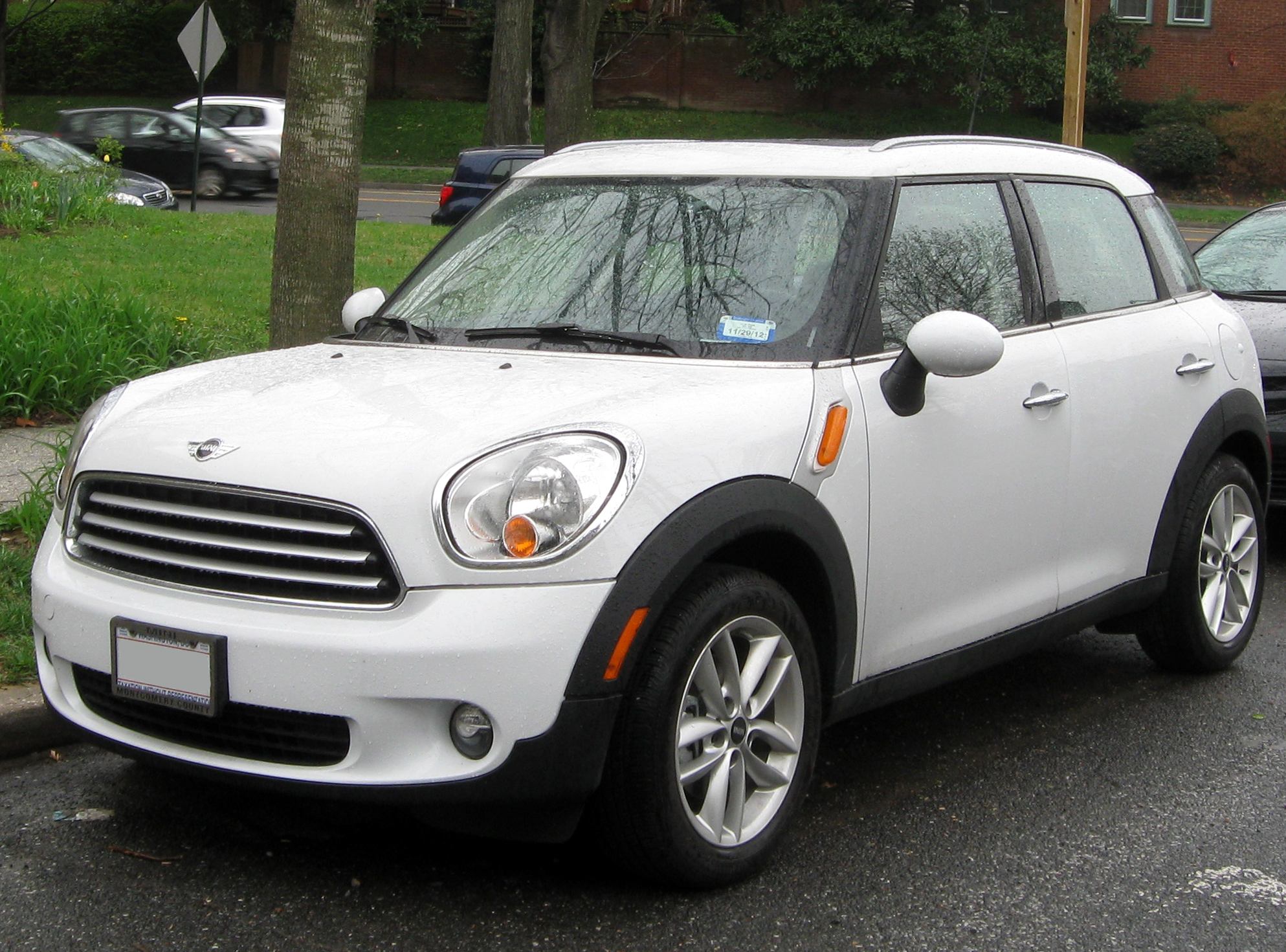 2012 Mini Countryman photographed in Washington, D.C., USA.